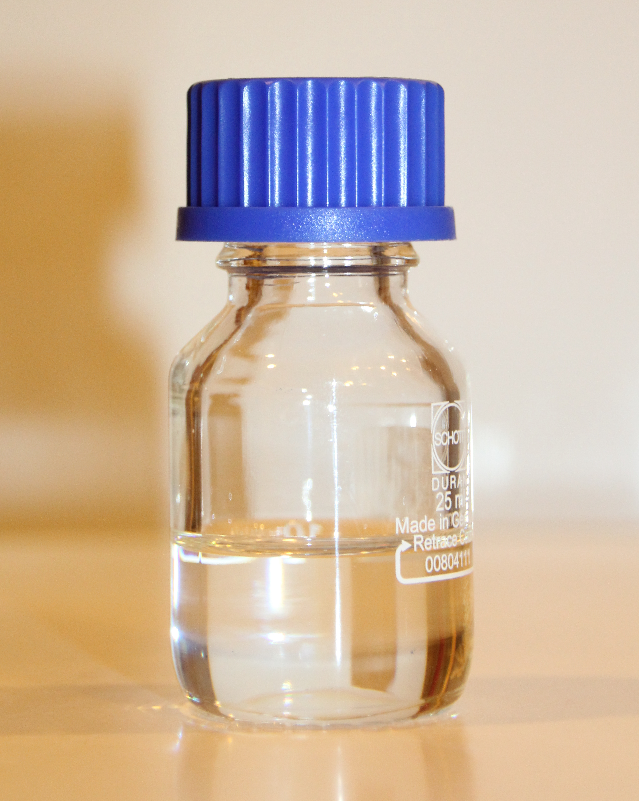 Sample of pyridine, GR